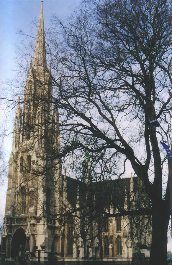 First Church, Dunedin. Photograph by James Dignan, June 2005.